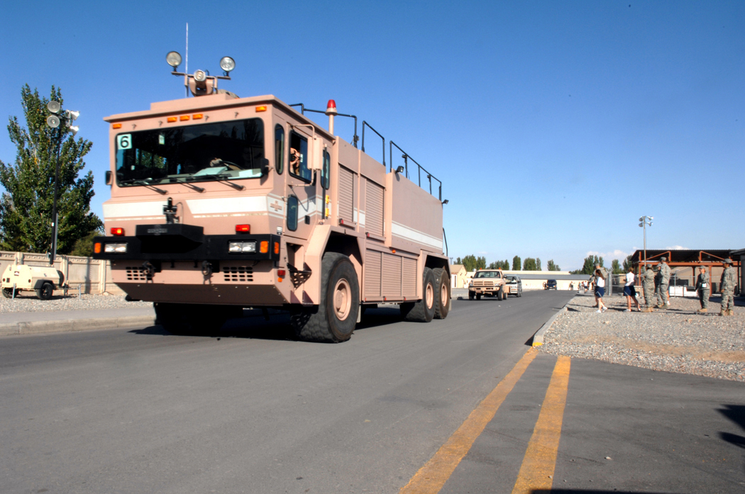 A T-3000 Aircraft Rescue Fire Fighting Apparatus vehicle from the 376th Air Expeditionary Civil Engineer Squadron's fire department at Manas Air Base in Kyrgyzstan, 2010.